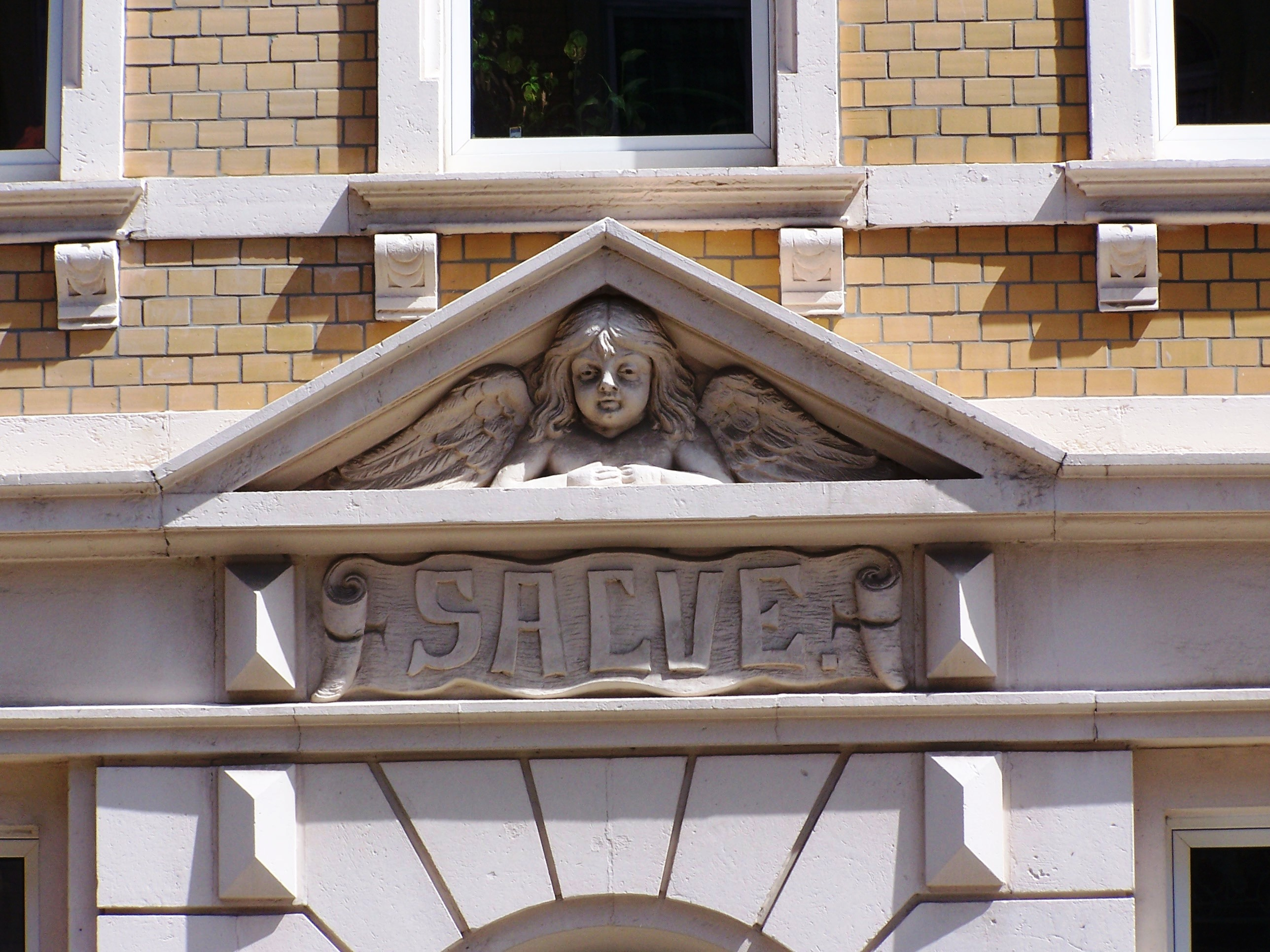 misc finding during a photo tour in Dresden